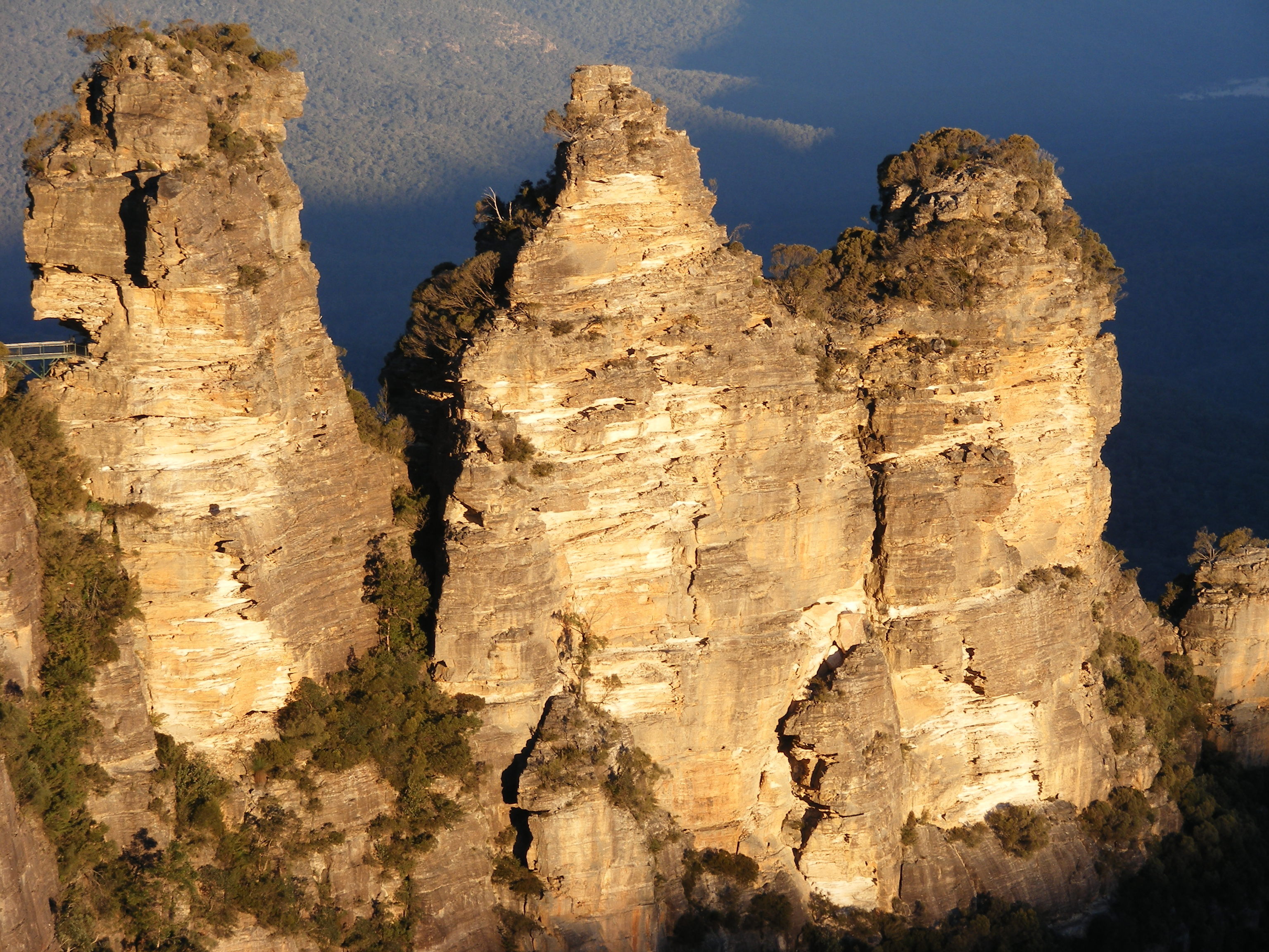 Blue Mountains National Park